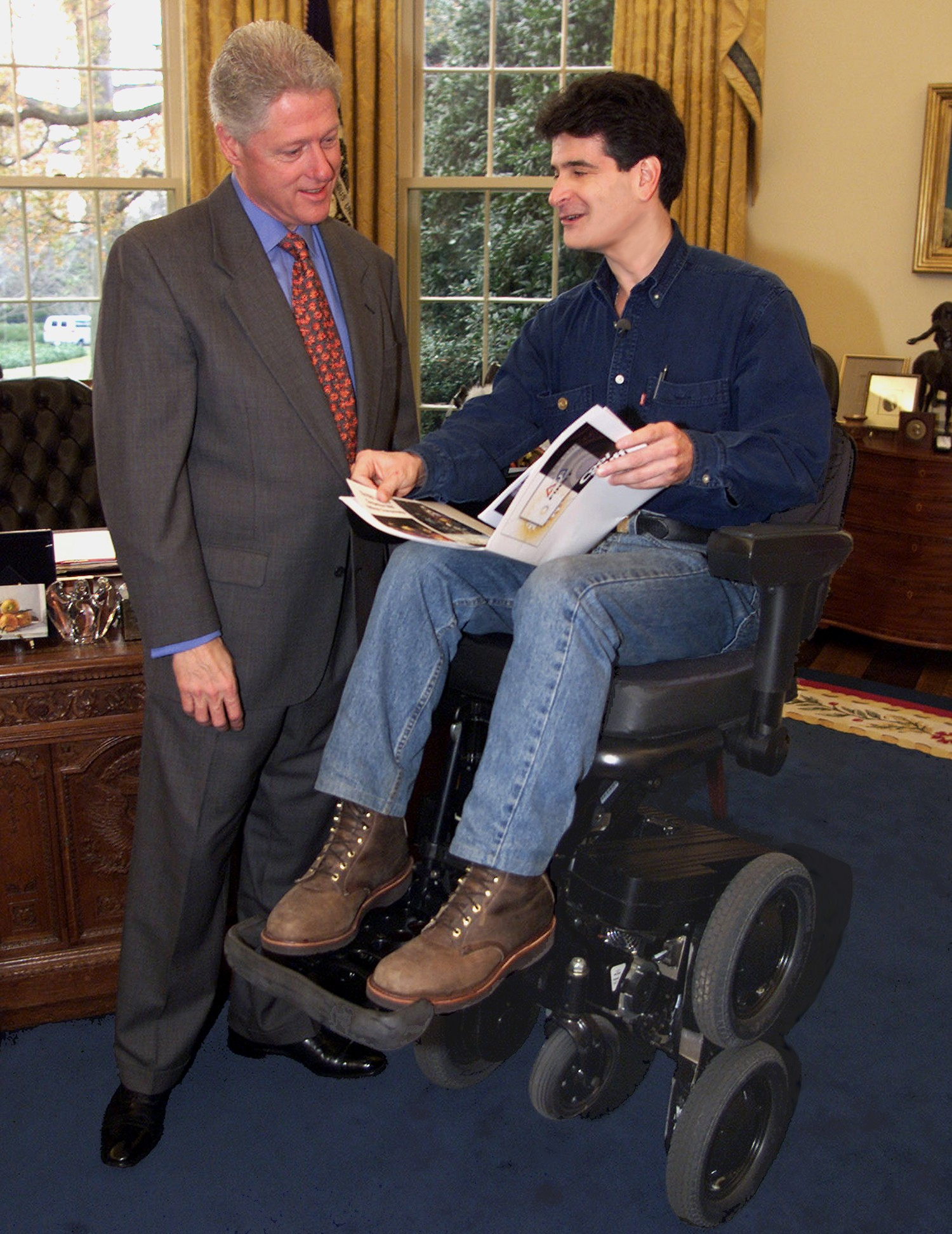 This picture shows Bill Clinton and Dean Kamen in the office of the president. Kamen is on his iBOT.